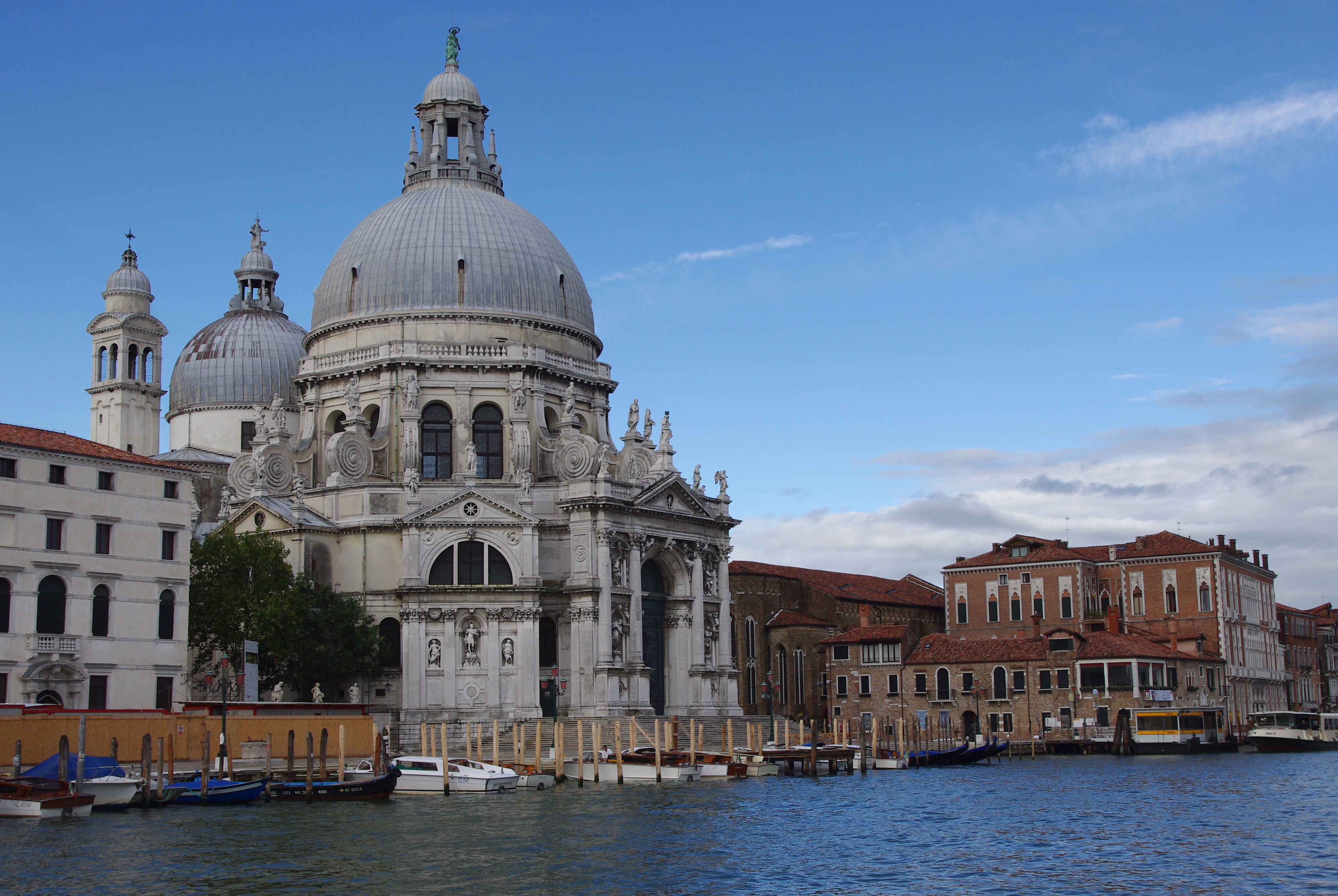 The Basilica of St Mary of Health in Venice